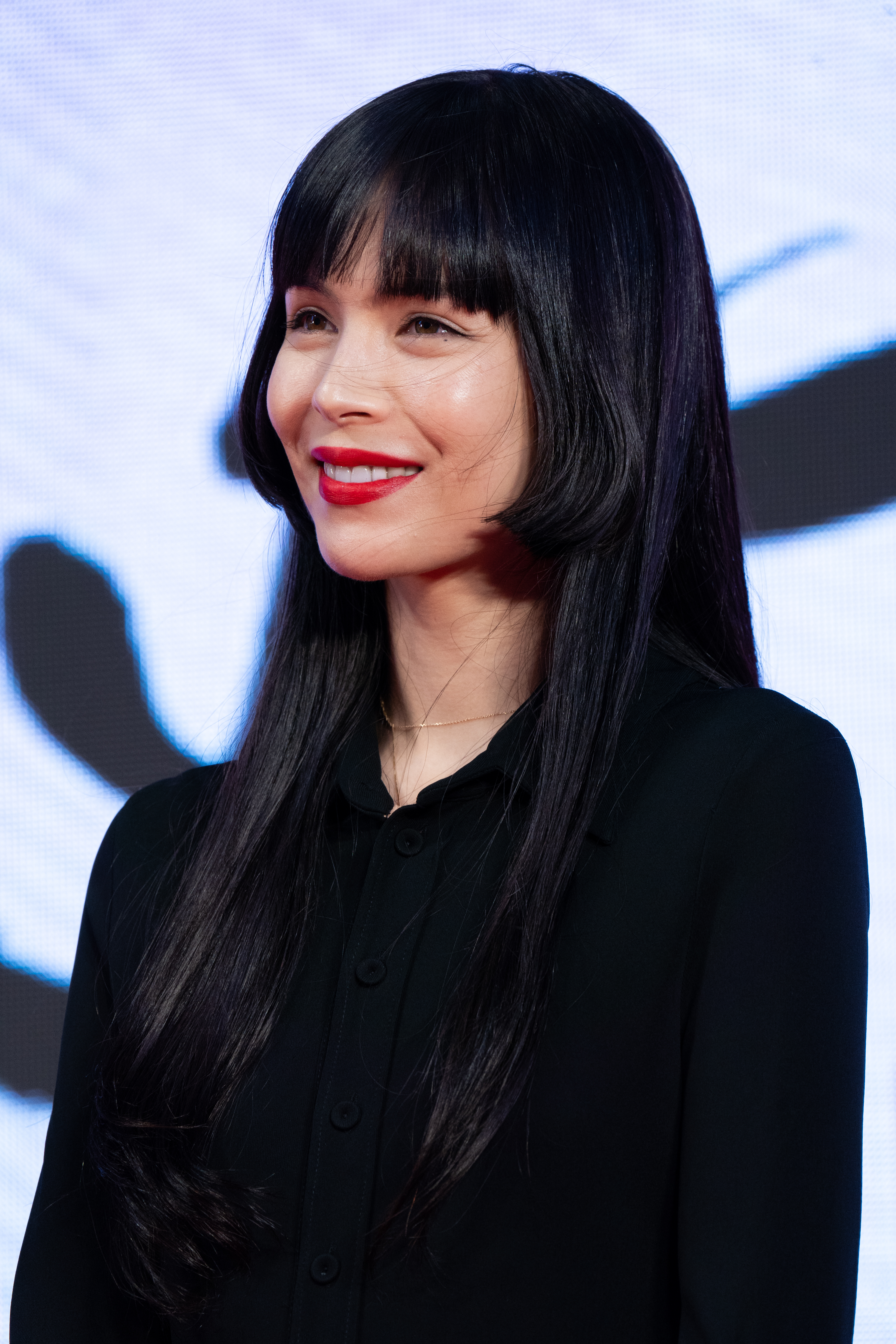 Sara Mary from "Flowers and Rain" at Opening Ceremony of the Tokyo International Film Festival.